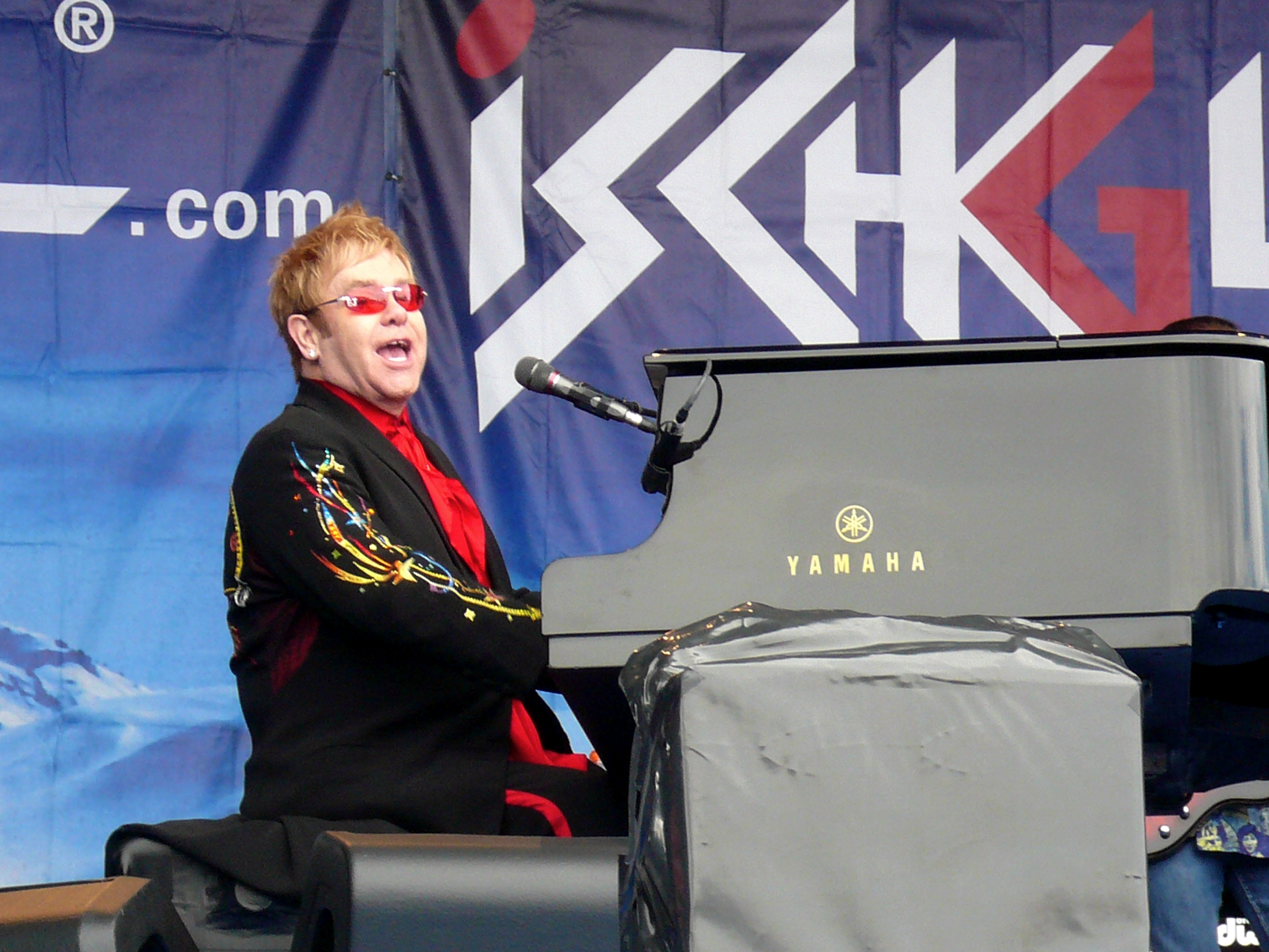 This is a Picture of the Elton John Concert in Ischgl, Austria. Taken on 3rd May.2008